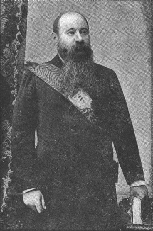 Official portrait of State President M.T. Steyn of the Orange Free State, in office 1896-1902